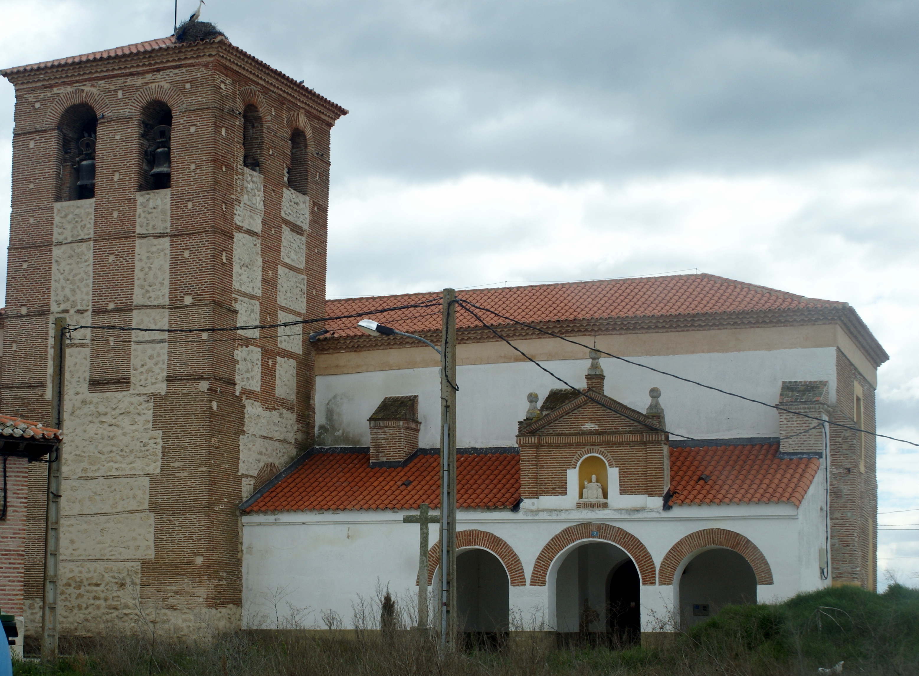 Church of St. Peter in Aguasal, Valladolid, Spain.